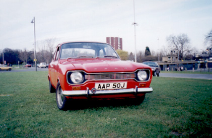 David Hughes' 1971 Ford Escort MK1, owner of vehicle and picture